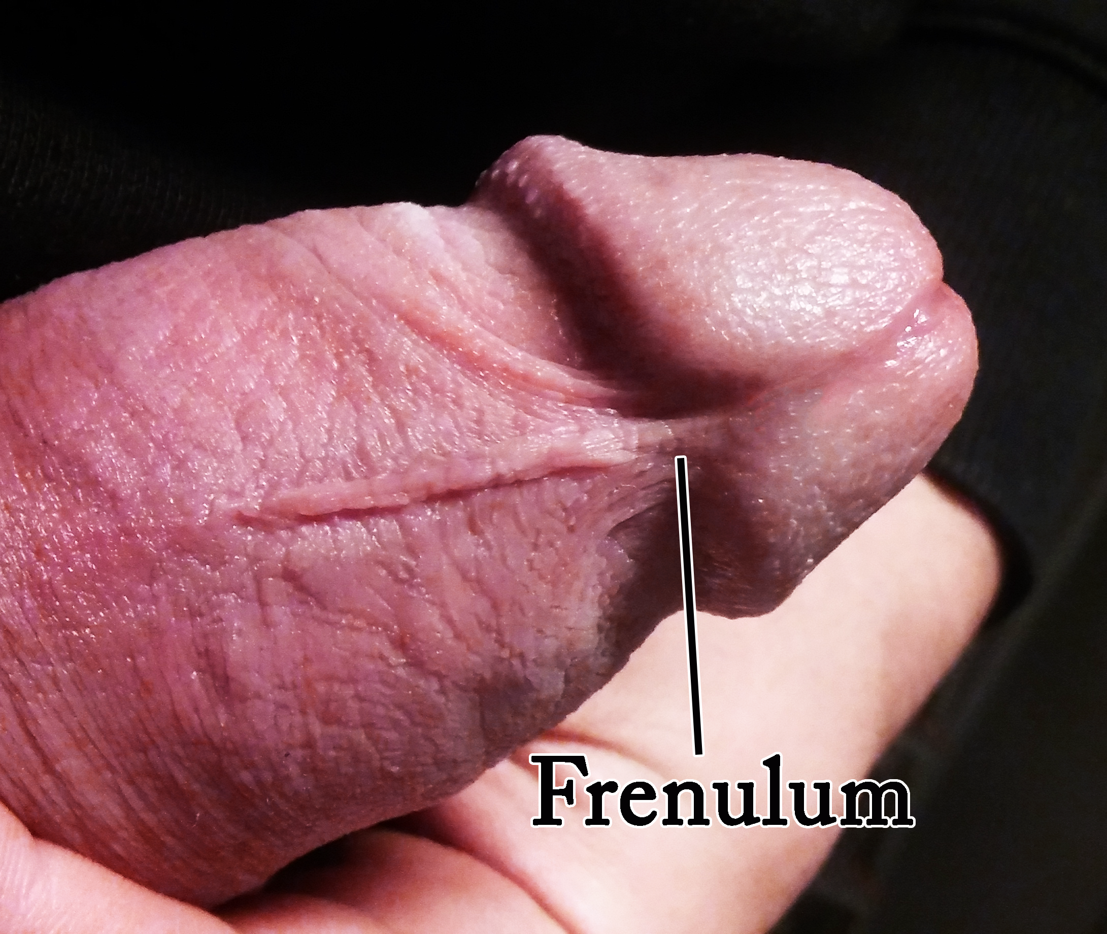 Frenulum of a flaccid human penis